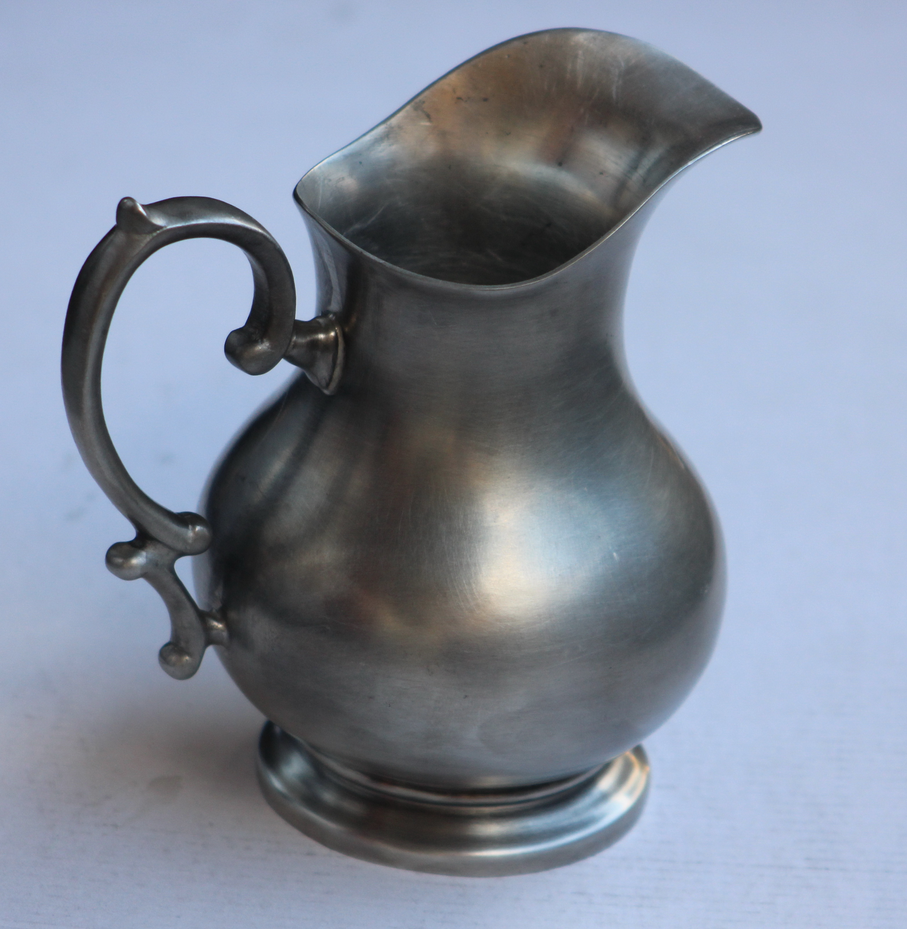 Creamer of the company Etains Potstainiers Hutois SA.